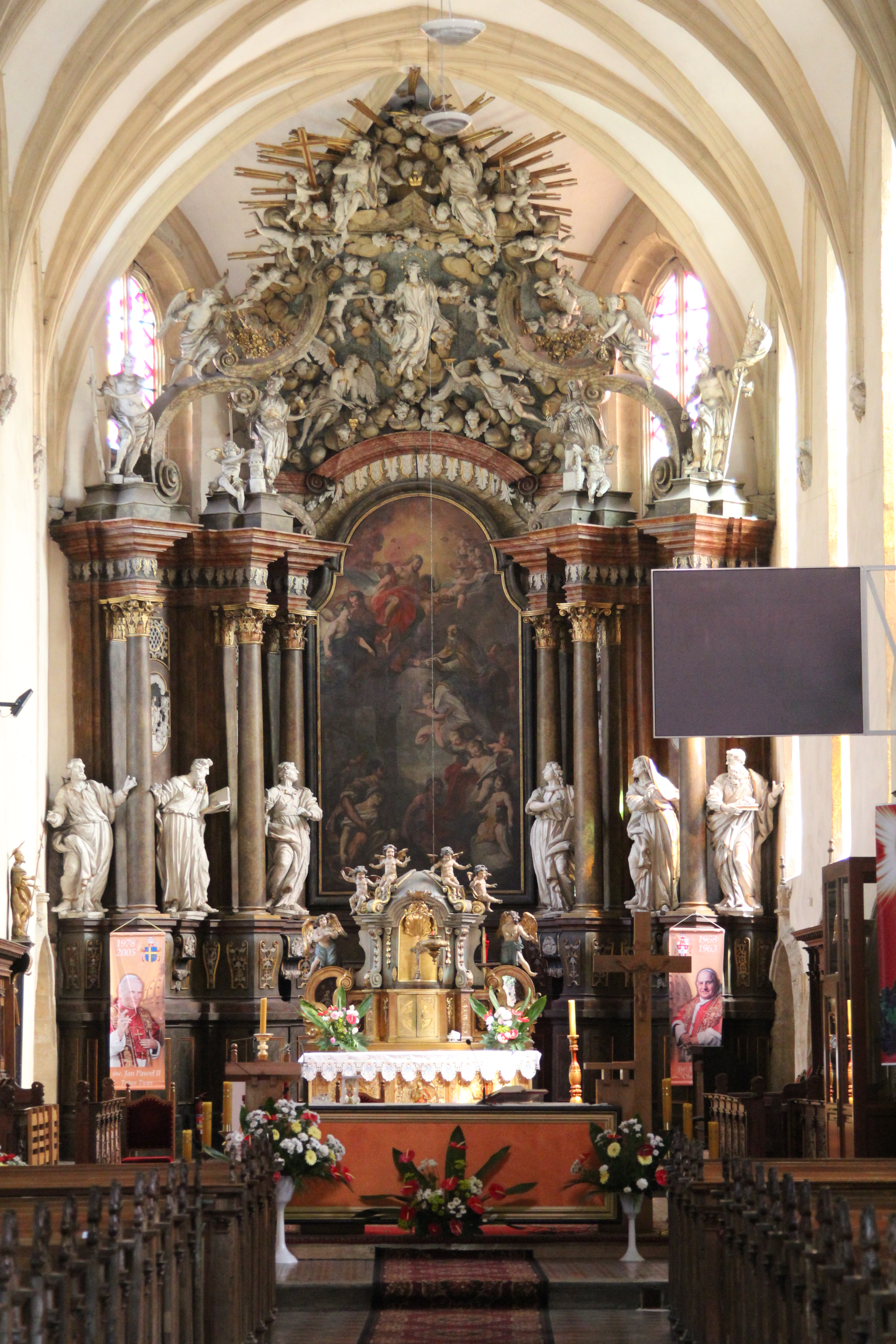 Church of Saint Martin in Jawor